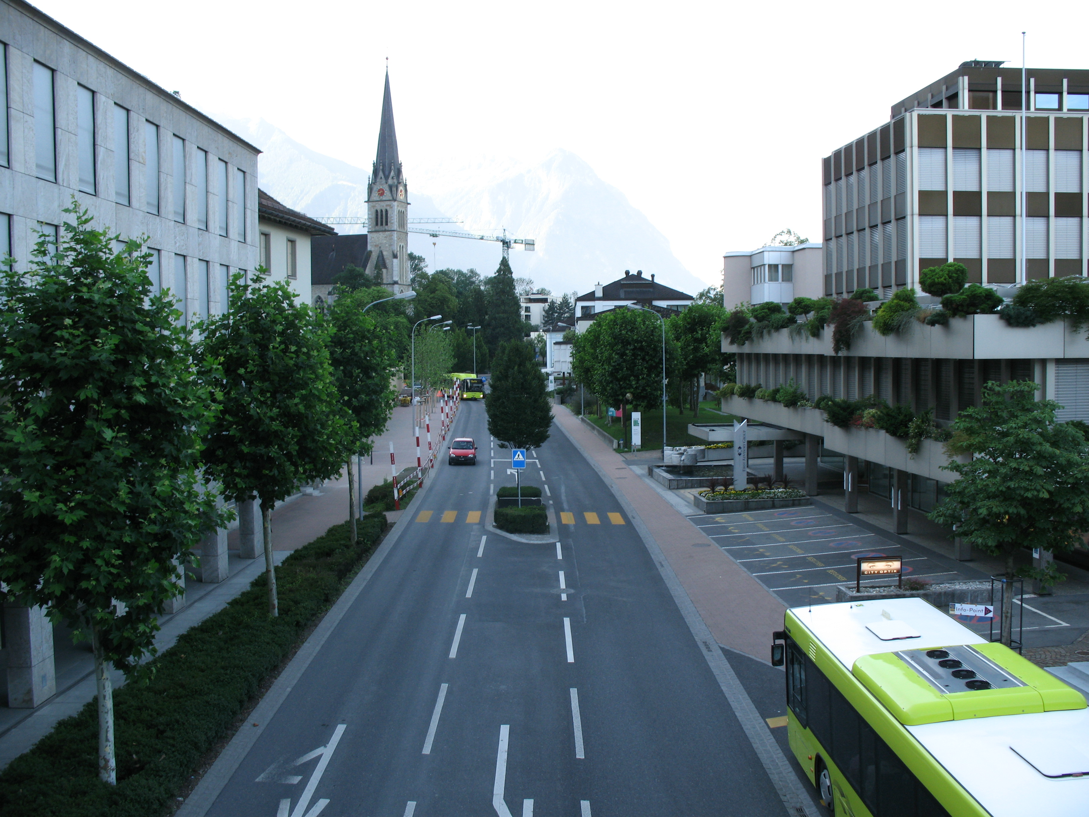 Äule Street, Vaduz, Liechtenstein